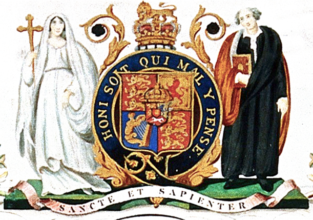 Coat of Arms of King’s College London used from 1829 to 1985. Cropped from Charter of King's College, London.